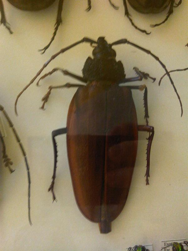 Ctenoscelis coeus at the National Museum of Natural History, Vilhena Palace, Republic of Malta.